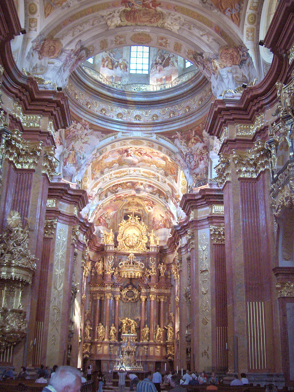 Central nave of the church of Melk Abbey, Austria